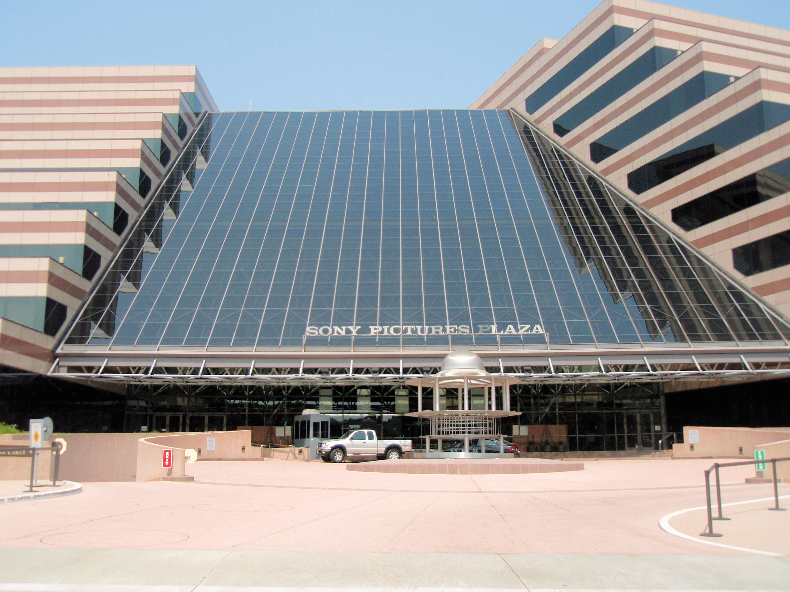 Sony Pictures Plaza, next to the main studio lot of Sony Pictures Entertainment in Culver City. Photographed on May 10, 2008 by user Coolcaesar.